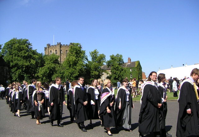 BSc Graduation at Durham 2005